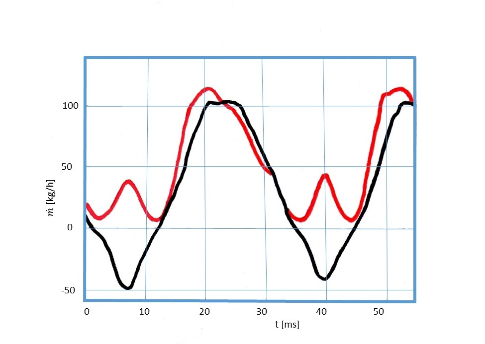 Pulsation of the intake manifold in a 4-cylinder engine at 900 rpm. Reverse flow detected by two thermal sensor types: Hot-wire (red curve) vs hot-film (black curve) MAF sensors.